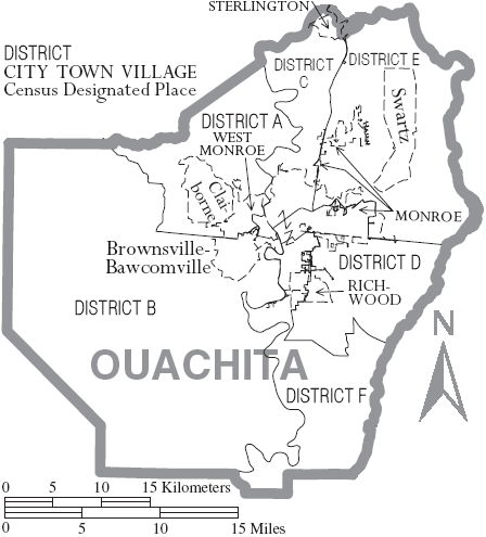 Map of Ouachita Parish, Louisiana, United States with district and municipal boundaries